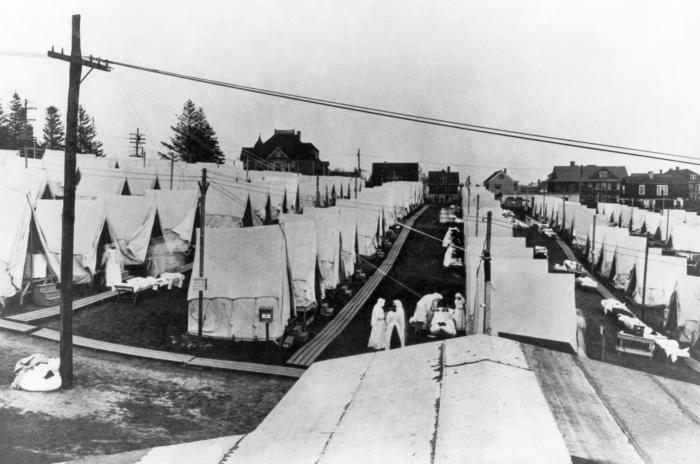 This May 29, 1919 photograph showed rows of tents that had been set up on a lawn at Emery Hill in Lawrence, Massachusetts where victims of the 1918 influenza pandemic were treated. The 1918 influenza pandemic killed an estimated 20-50 million people worldwide, including 675,000 in the United States. The pandemic’s most striking feature was its unusually high death rate among otherwise healthy people aged 15-34.